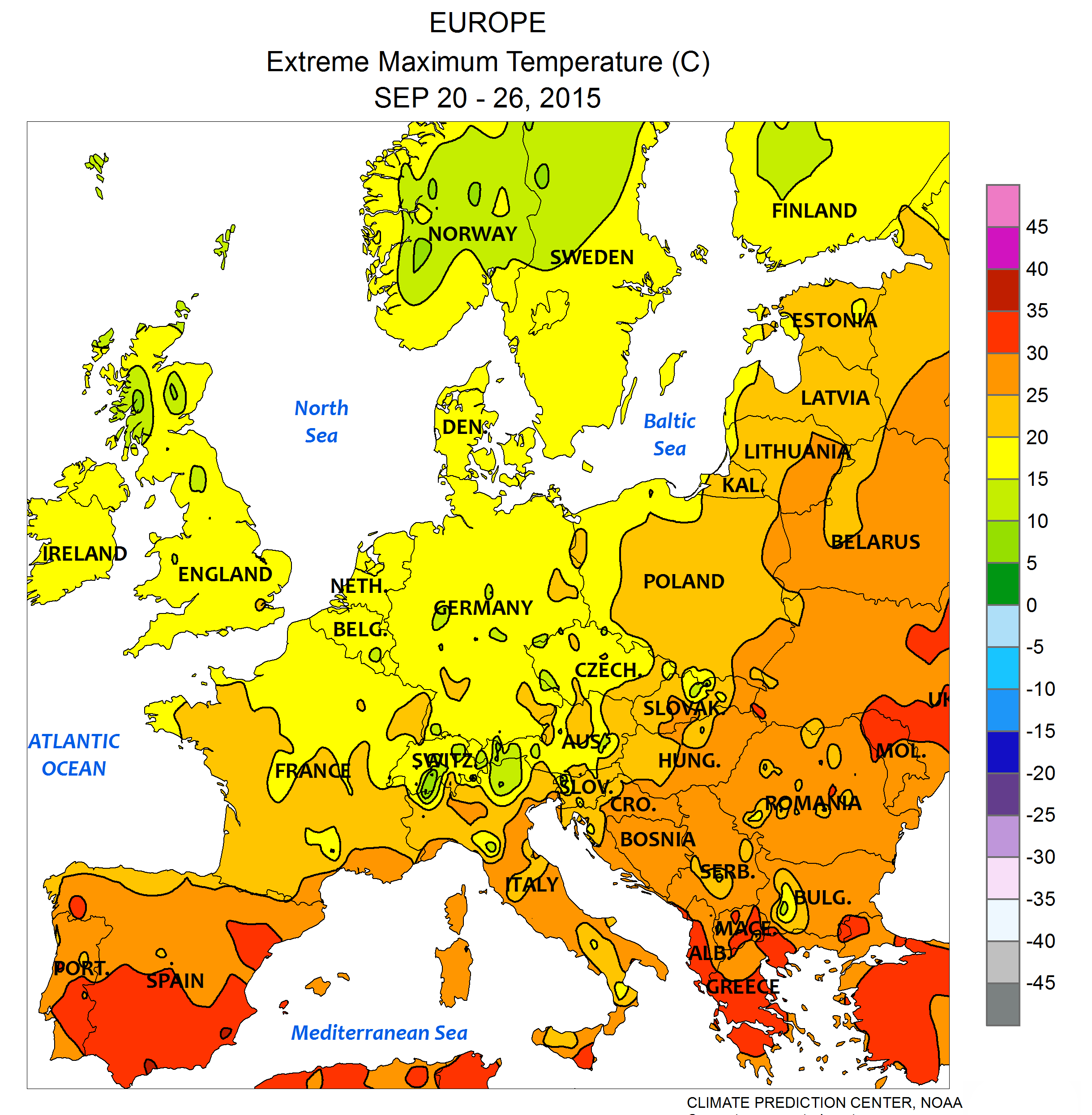 Europe: Extreme maximum temperature September 20 - 26, 2015, computer generated contours, based on preliminary data